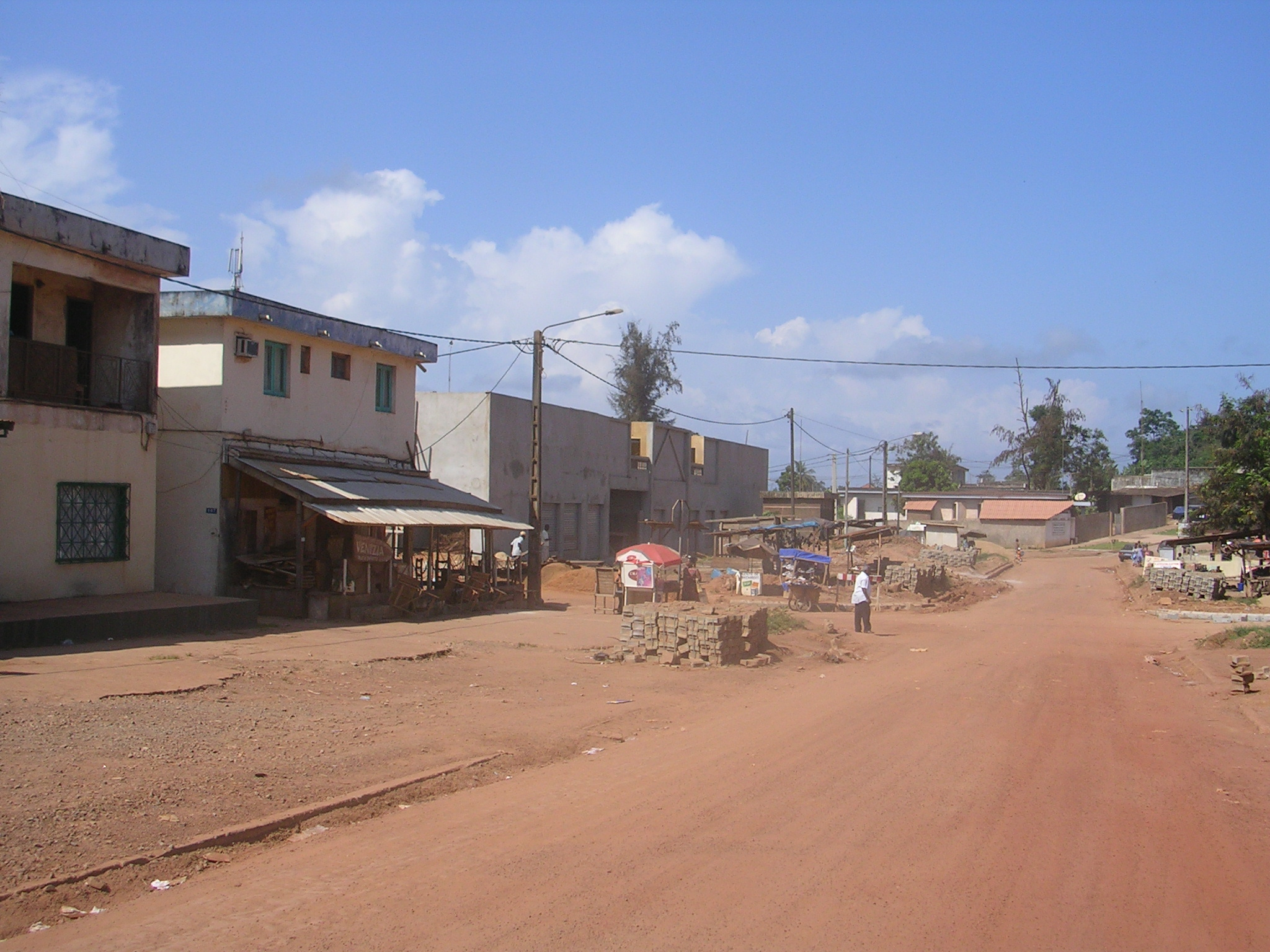 San Pédro. City centre.